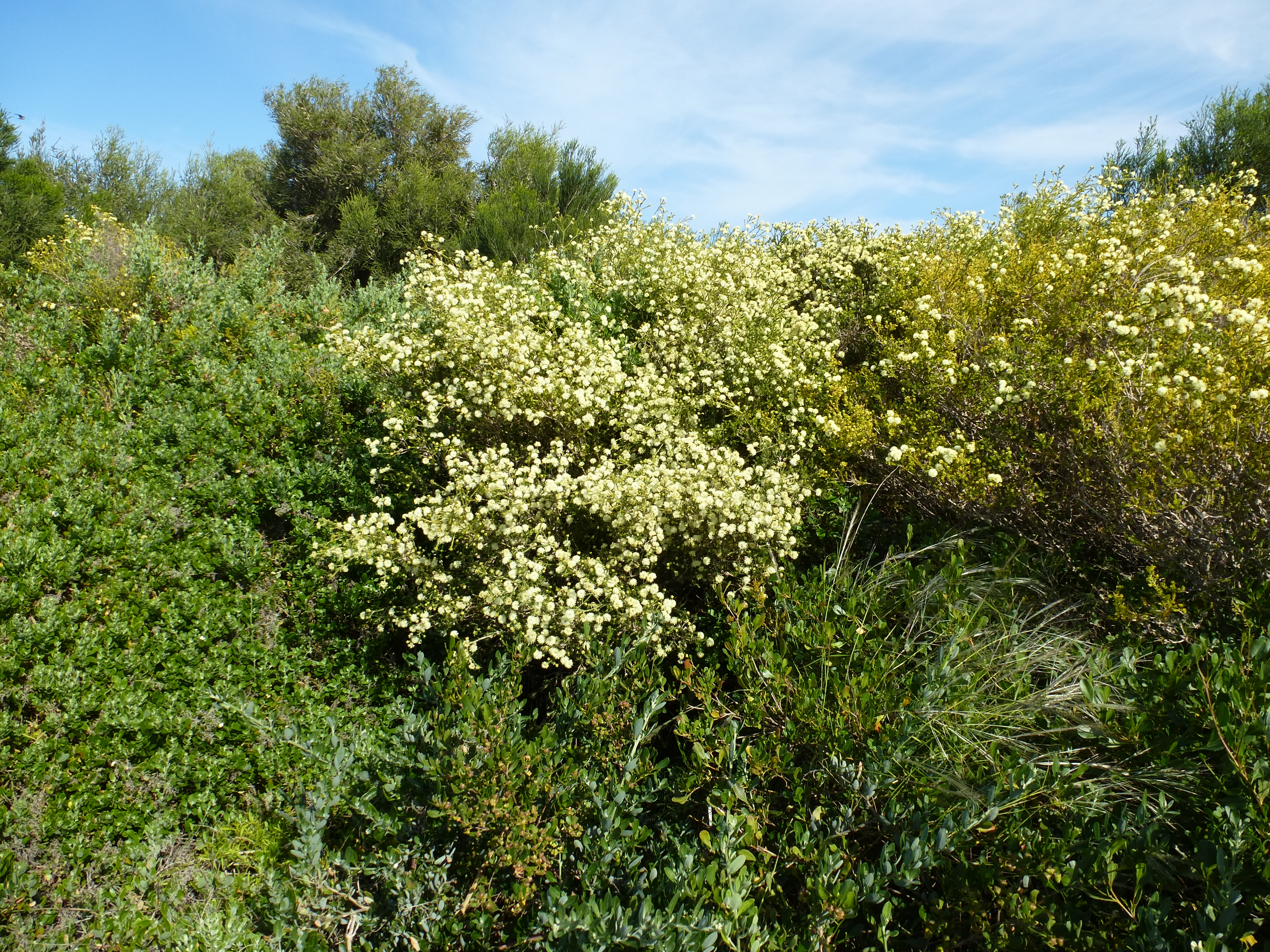 Melaleuca systena growing near Jurien Bay